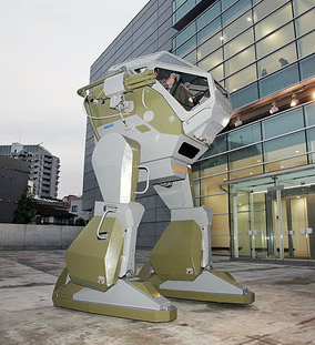 Land Walker